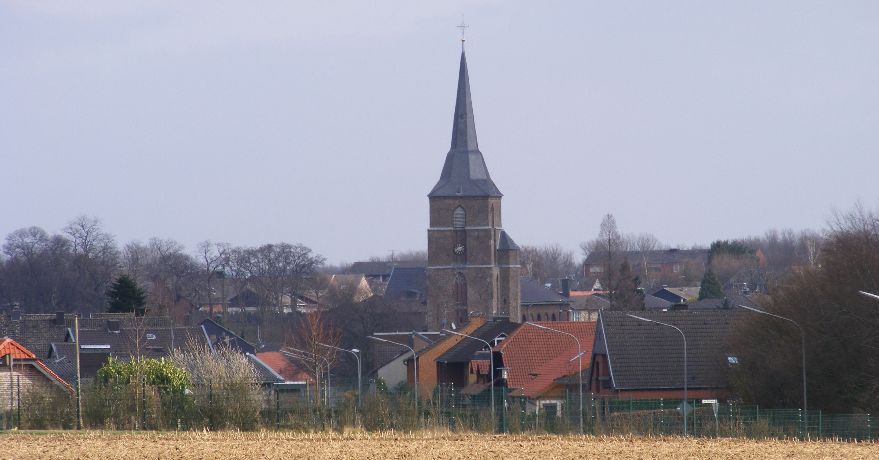 Dremmen (Heinsberg/Germany) with the St. Lambert church as seen from the west.